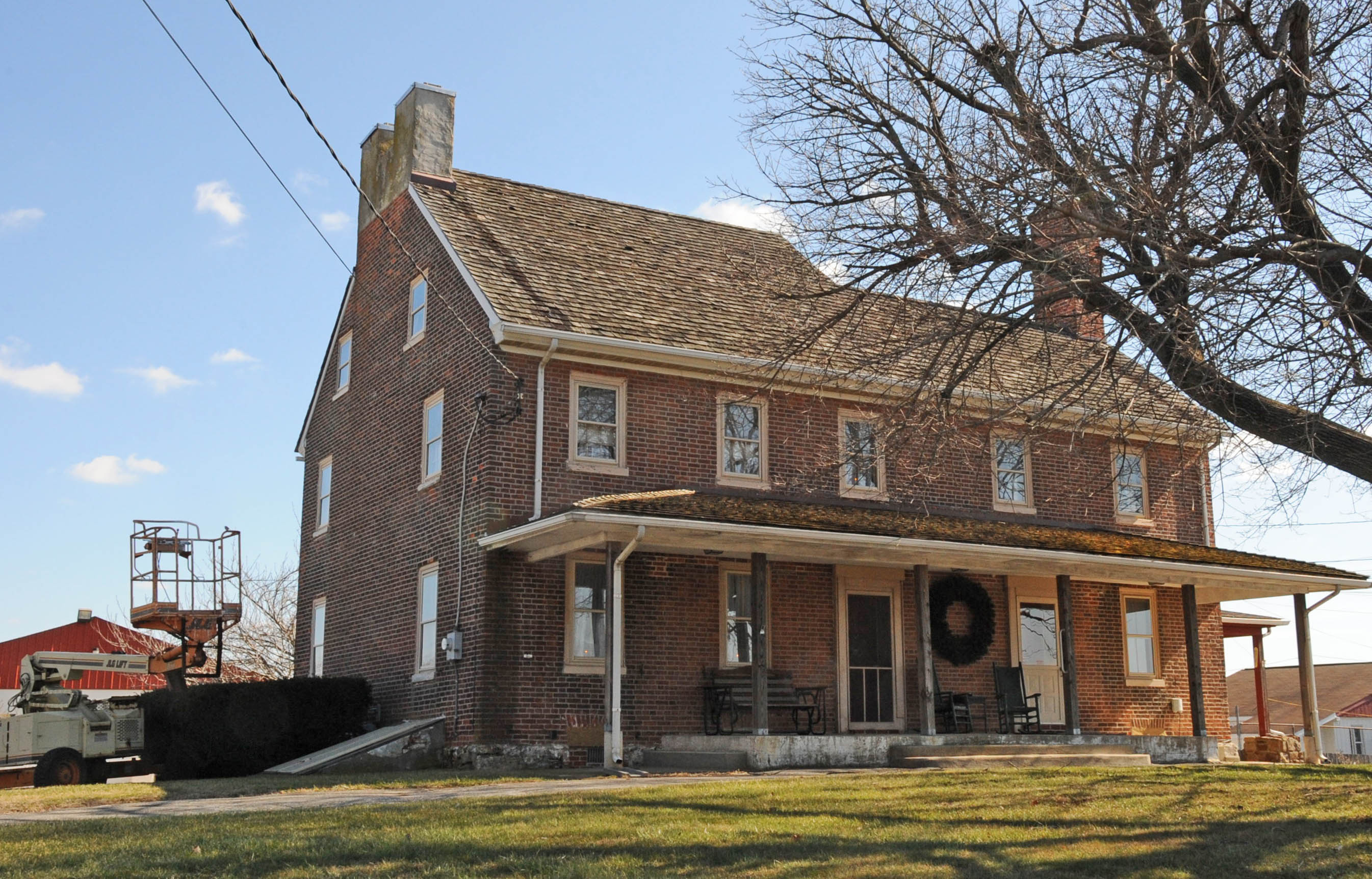 FLEMISH BOND BRICK FARM HOUSE LOCATED 0.2 MILES NORTH OF THE CHRISTIANA RIVER. BUILT IN THE LATE 18TH CENTURY